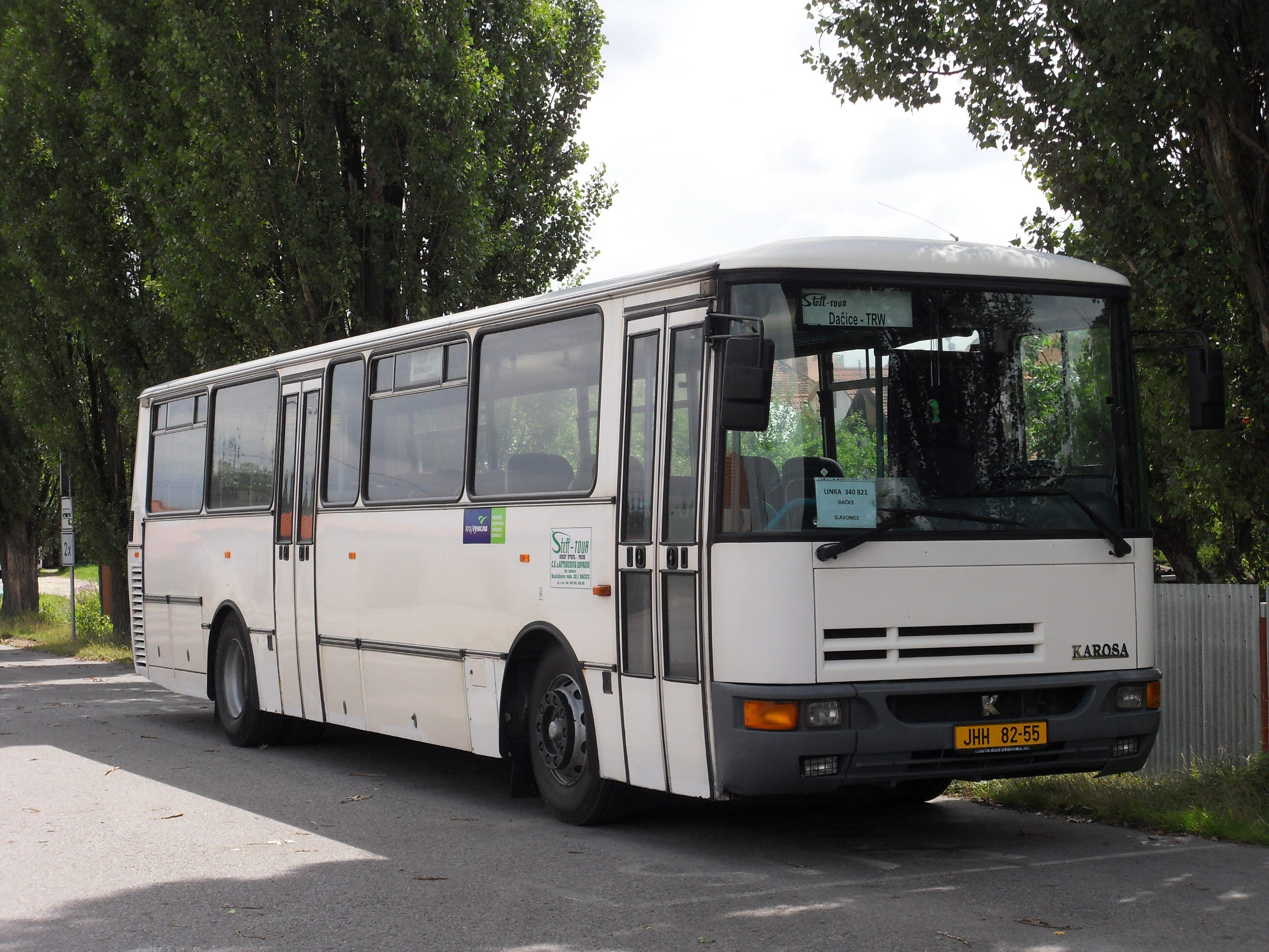 Karosa C 934 bus of Josef Štefl - tour, Slavonice, Jindřichův Hradec District, Czech Republic